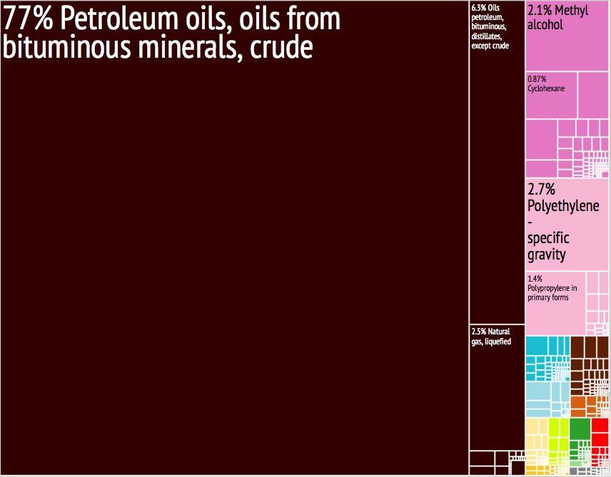 Saudi Arabia Export Treemap from MIT Harvard Economic Complexity Observatory